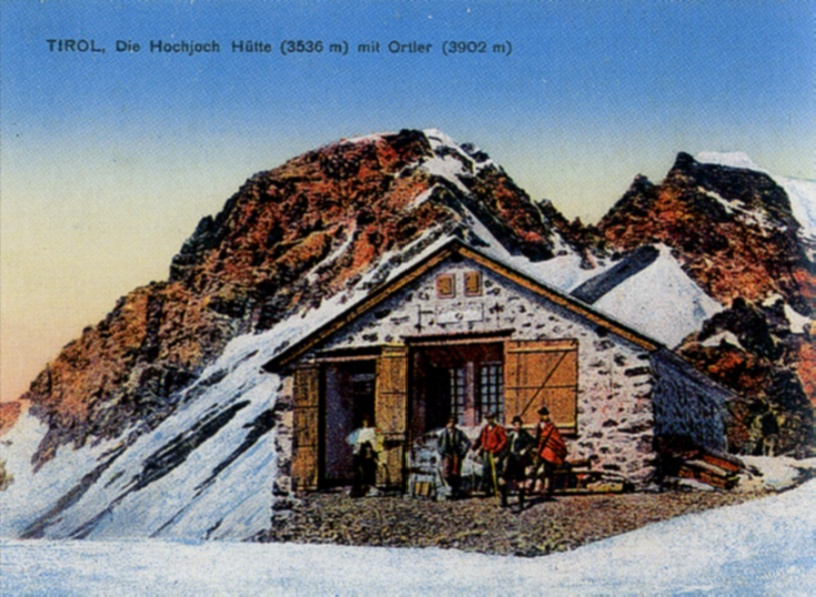 the old Hochjochhütte